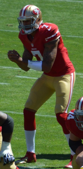 Colin Kaepernick in 2013 season debut vs. Green Bay Packers